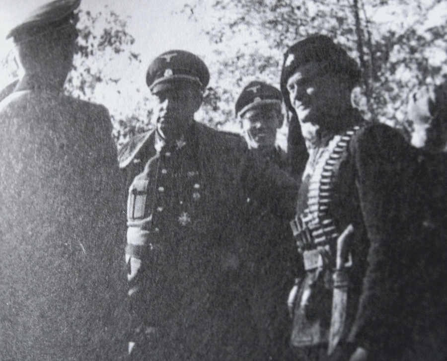 SS-Obergruppenführer Werner Lorenz accompanied with unknown chetnik officer in northeast Bosnia, autumn 1942.